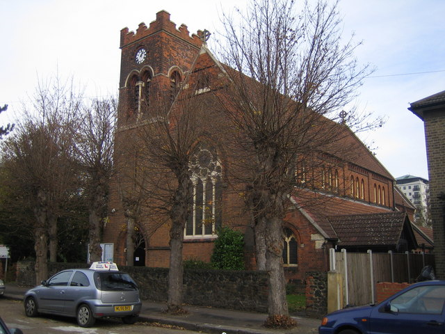 Chadwell Heath: St Chad's Church Tucked away in St Chad's Road, off the main road in Chadwell Heath, the church was built between 1884 and 1886 to serve the growing community. The clock tower was added in 1898 to celebrate the Diamond Jubilee of Queen Victoria the year previously. The Church has an excellent website here which includes the facility to download a podcast of the sermons given in the Church.